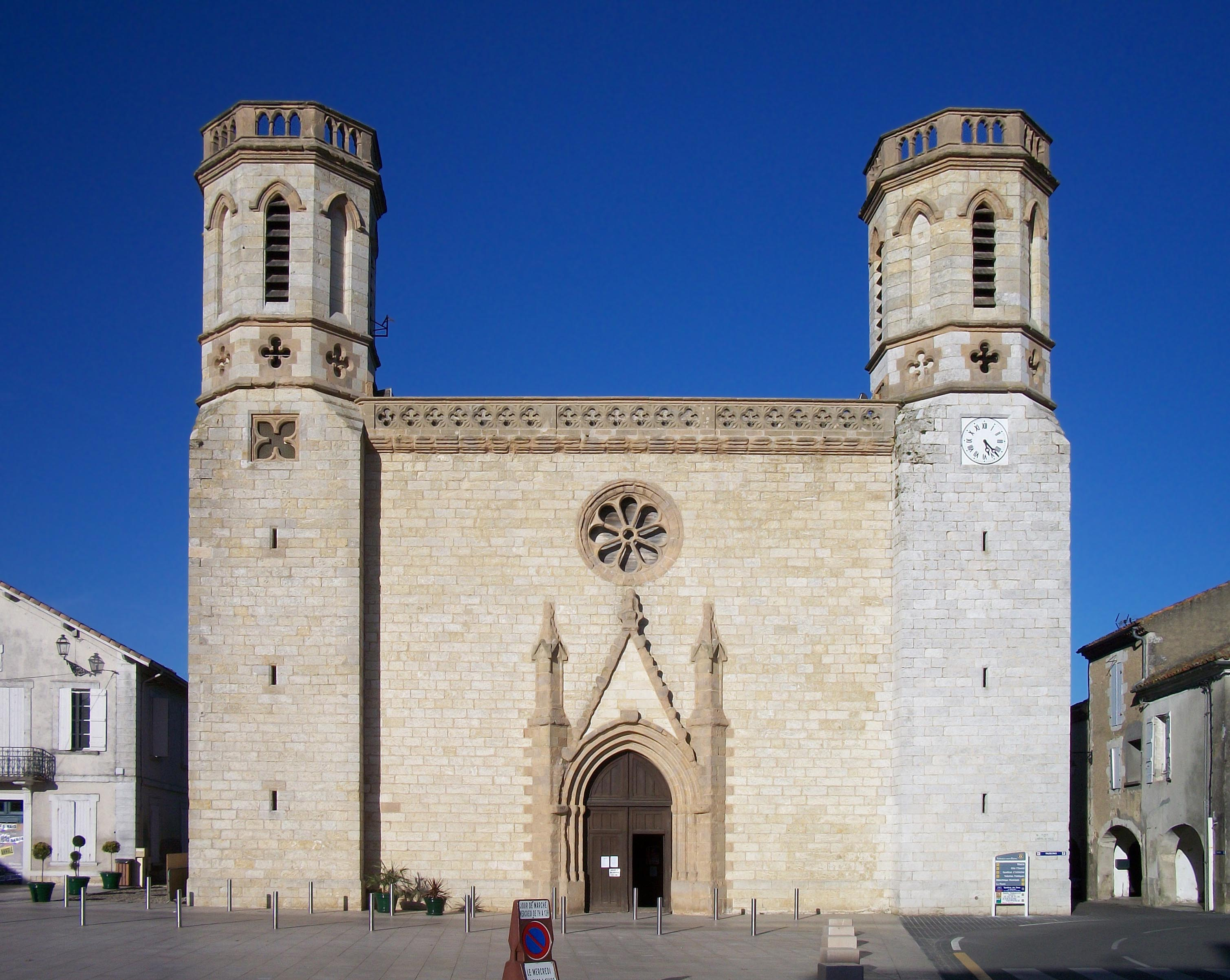 Valence-sur-Baïse Church, Gers, France